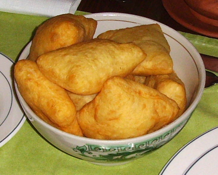 Baursaki - kazakh bread